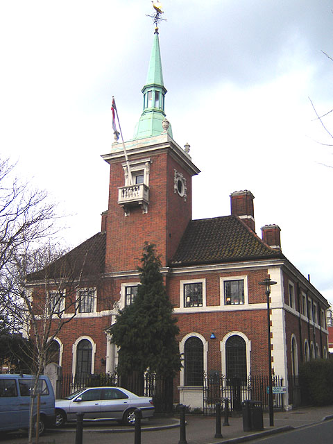 St Olav's Church, Rotherhithe, Southwark, London. 11 February 2006. Photographer: Fin Fahey.